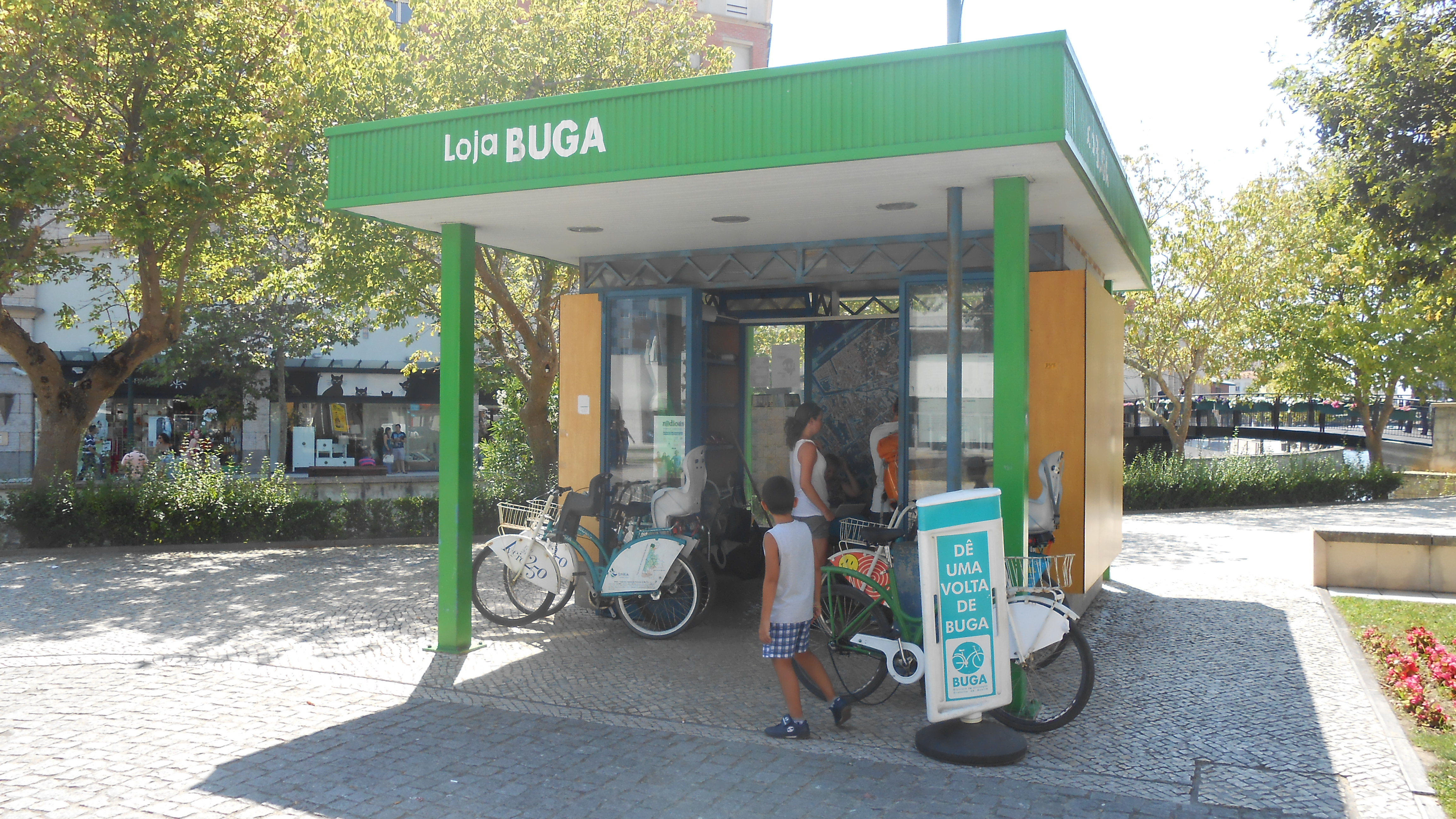 Booth of the free community bicycle programm BUGA (Bicicleta de Utilização Gratuita de Aveiro) in the city of Aveiro.